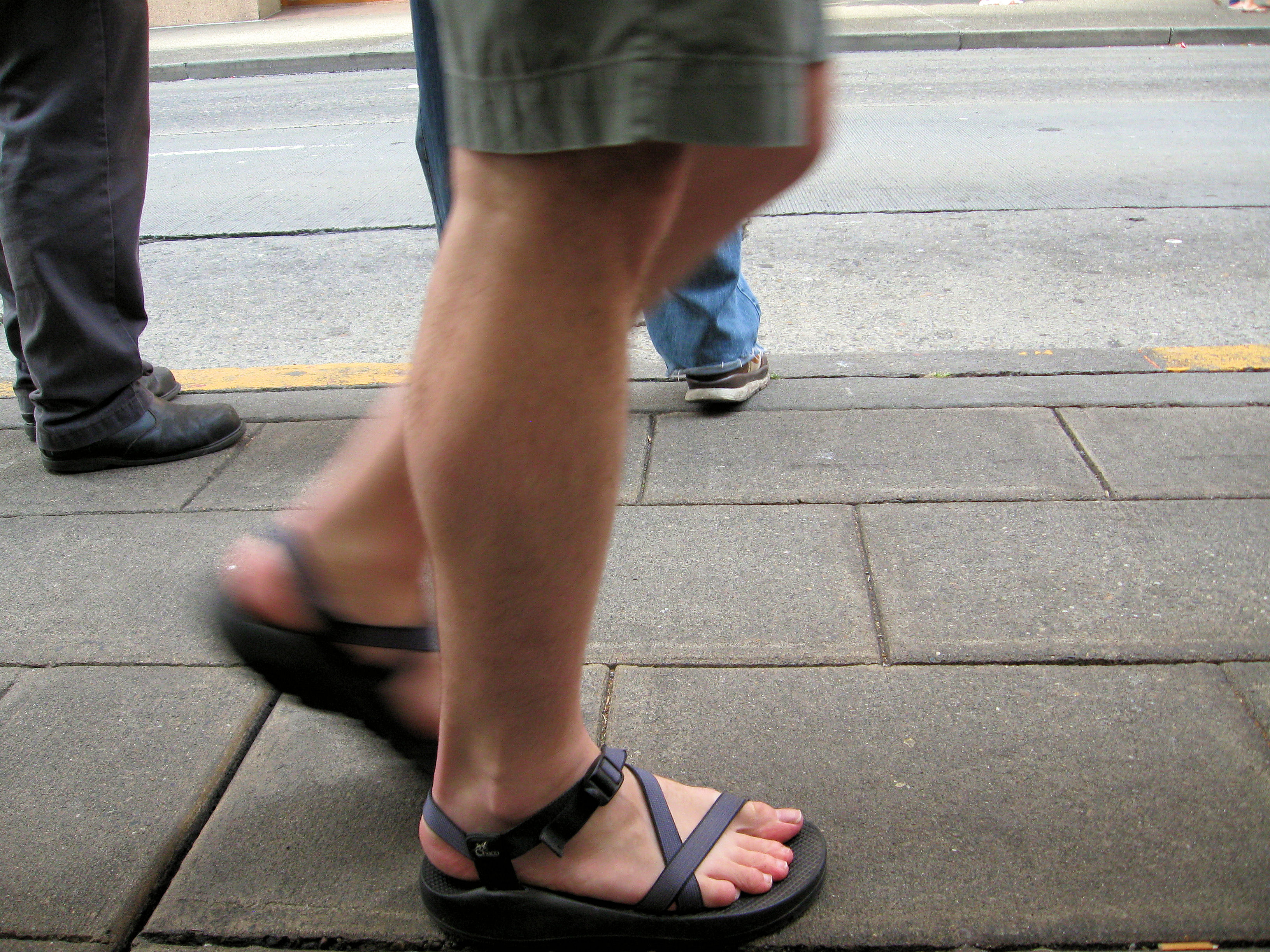 An example of walking in sandals.